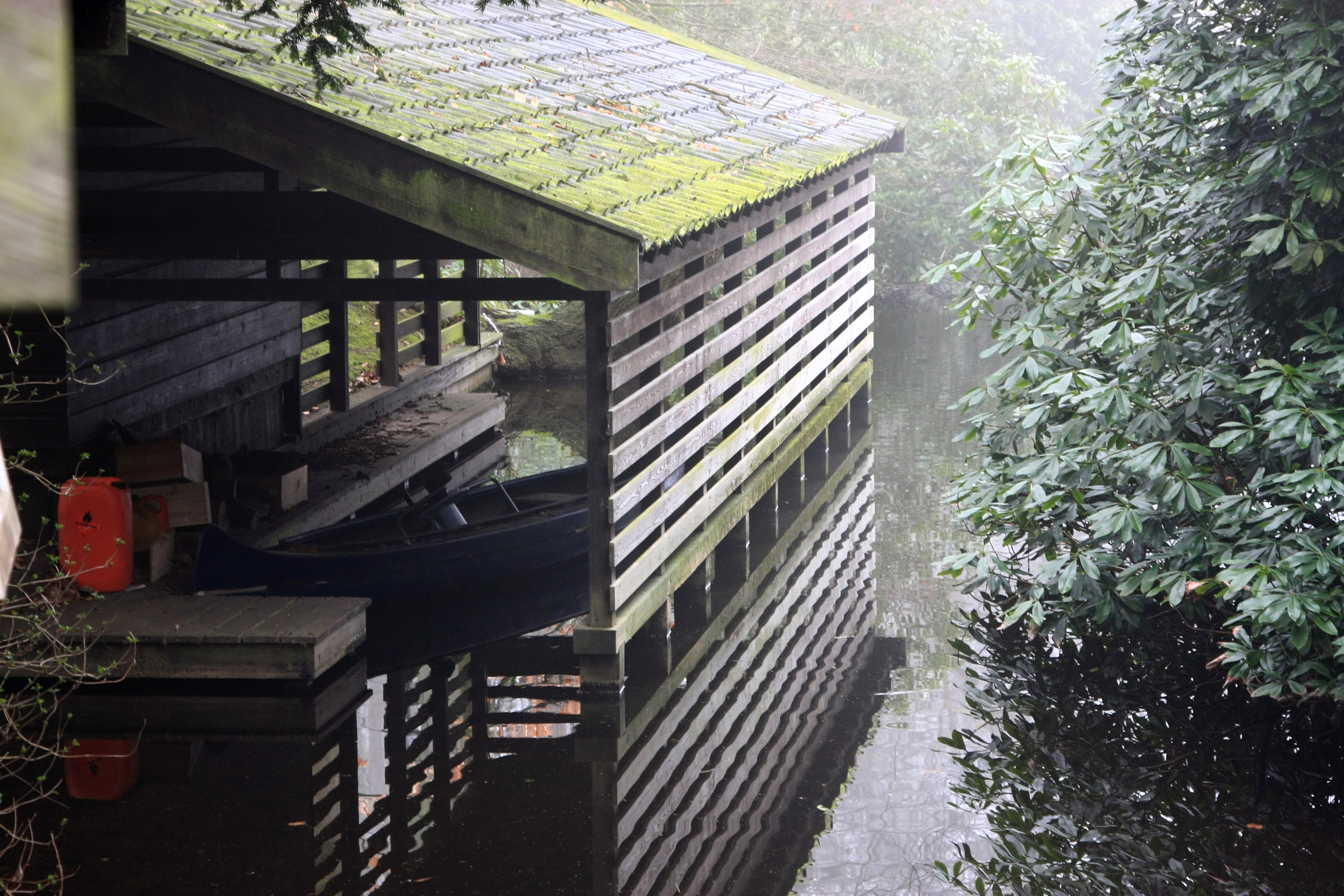 Boathouse at Landgoed Jagtlust in 's Gravelande, the Netherlands in fog.